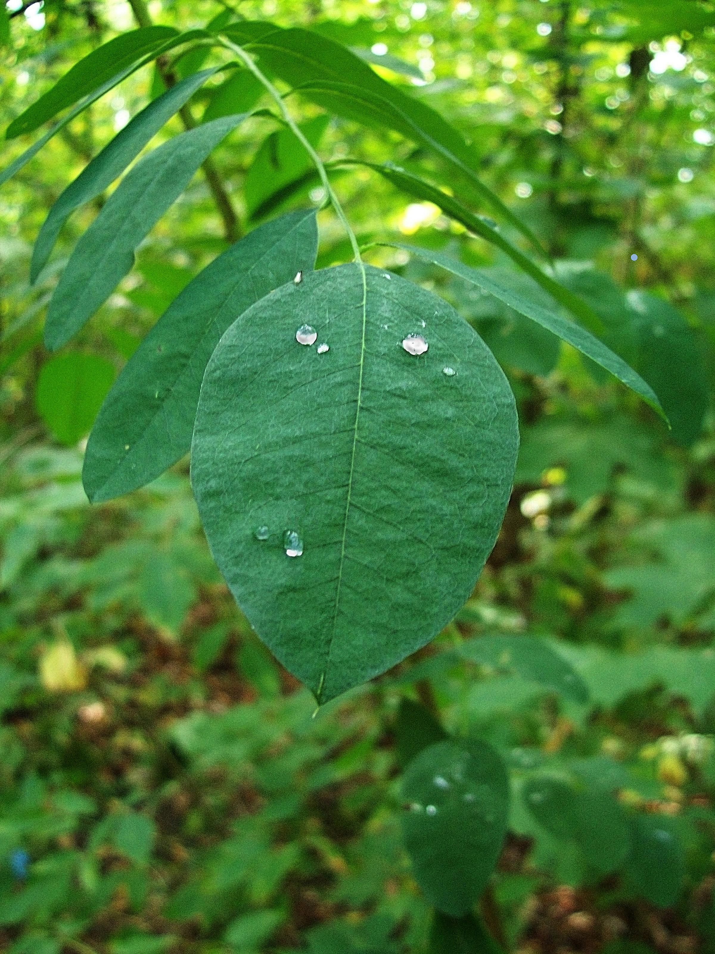 Robinia pseudoacacia, Chernihiv, Ukraine